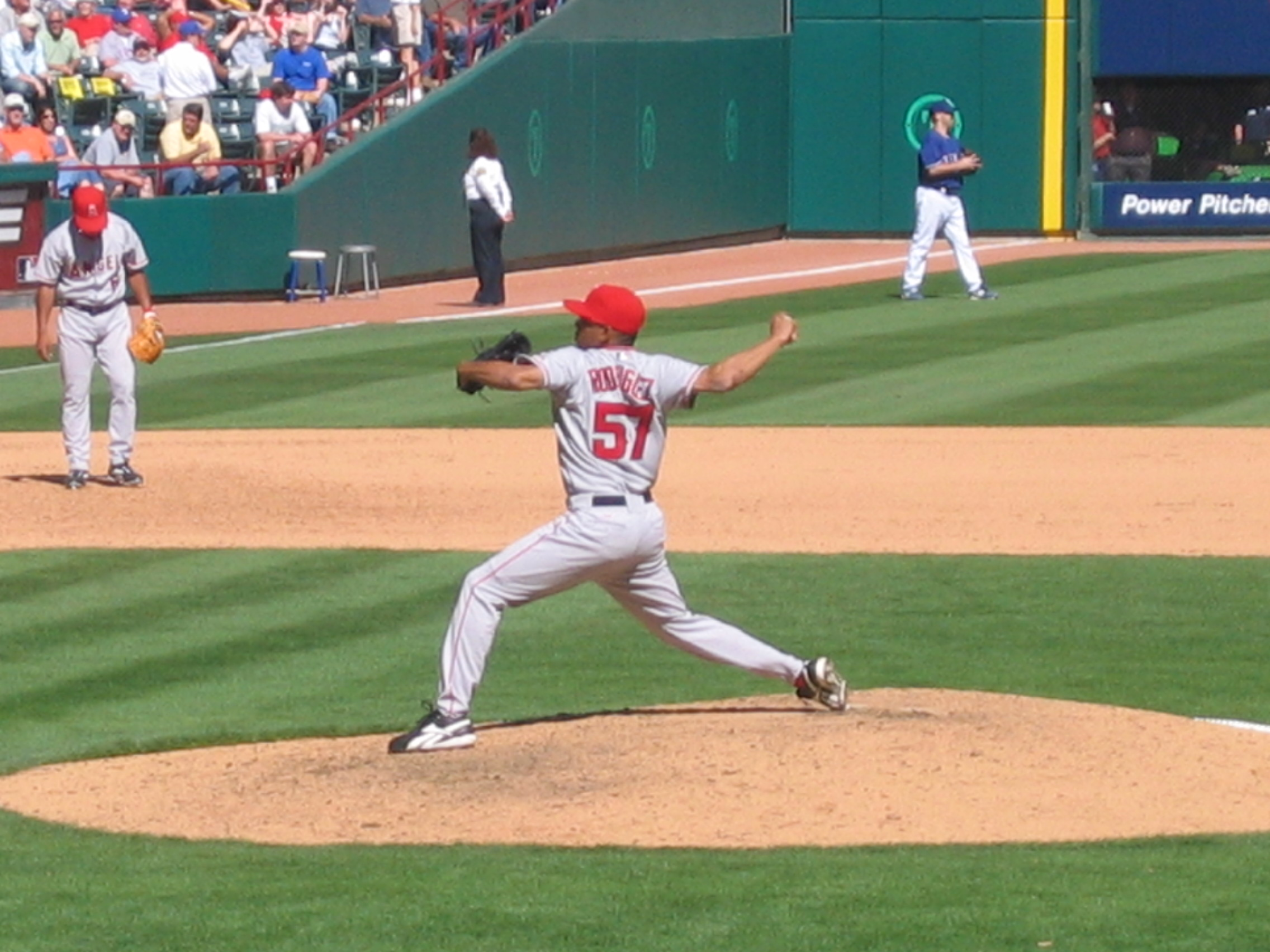 Another one from opening day. Taken at Ameriquest Field on opening day (4-11-2005).